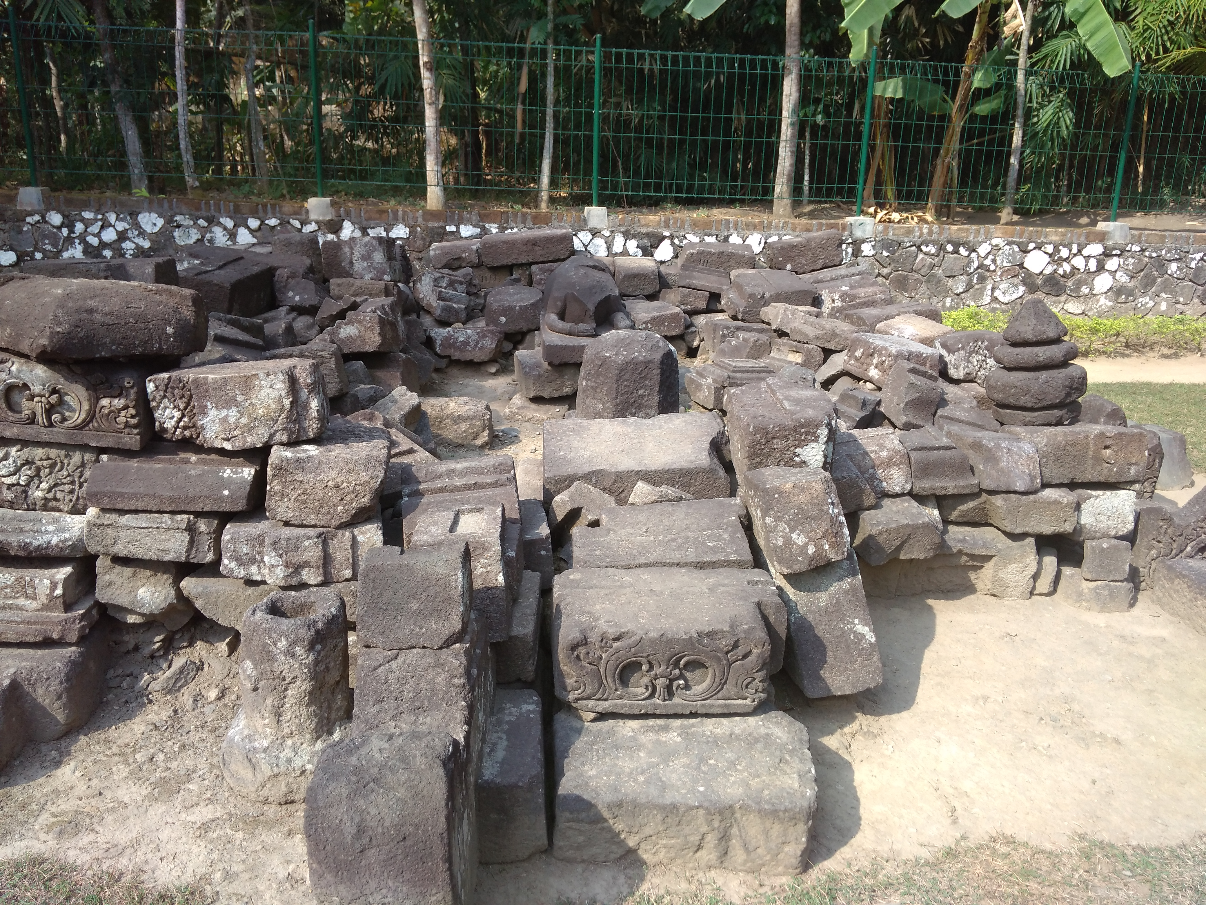 Ruins of Candi Merak